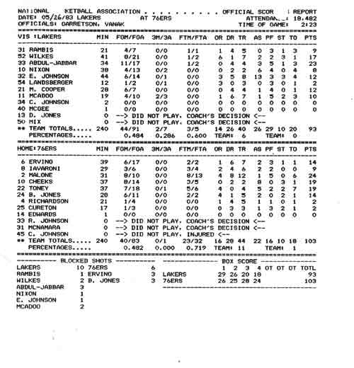 Facsimile of the official scorer's report for Game 2 of the 1983 NBA World Championship Series between the Philadelphia 76ers and the Los Angeles Lakers.